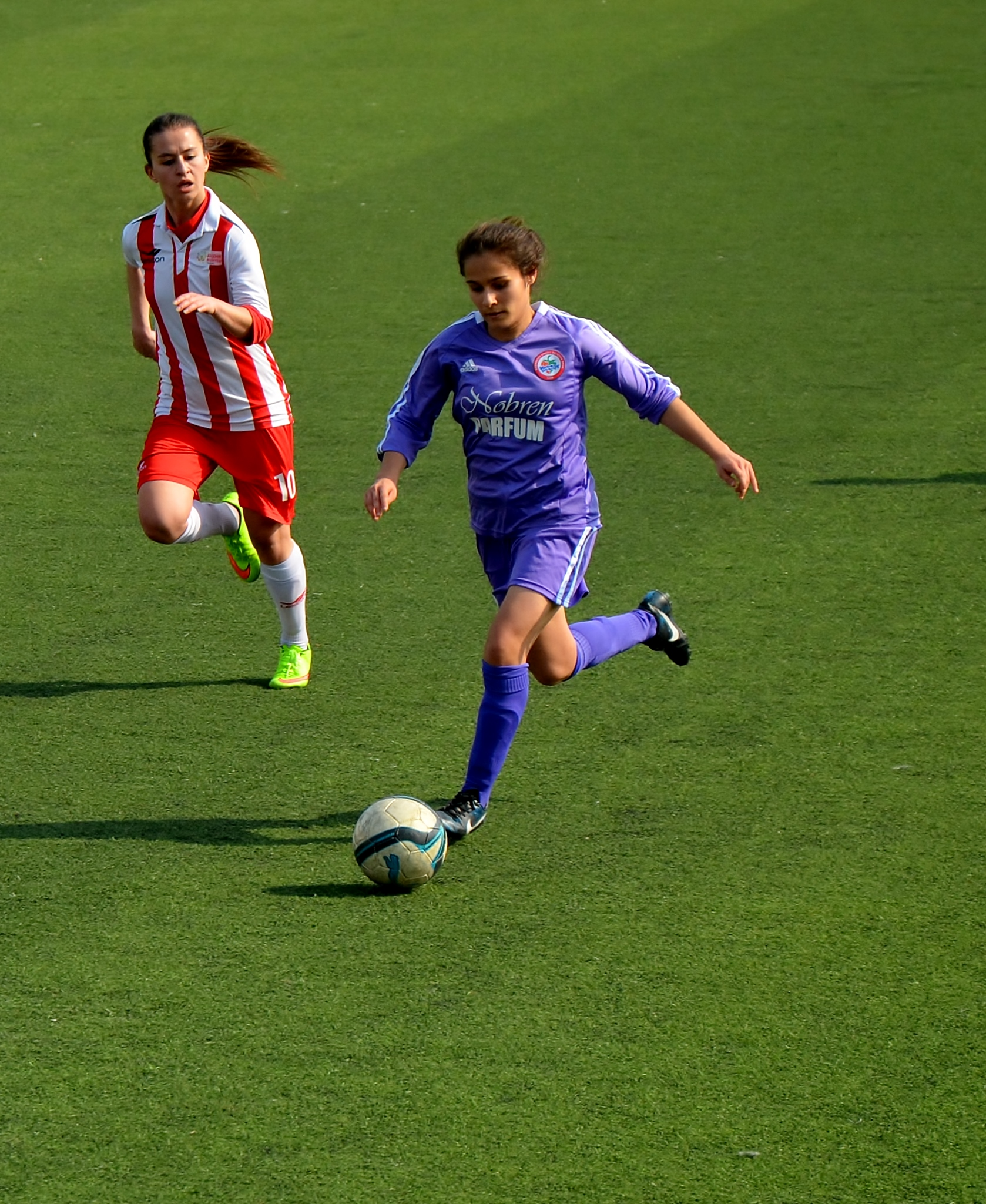 Rabia Civan playing for Kdz. Ereğlispor in the 2014-15 season